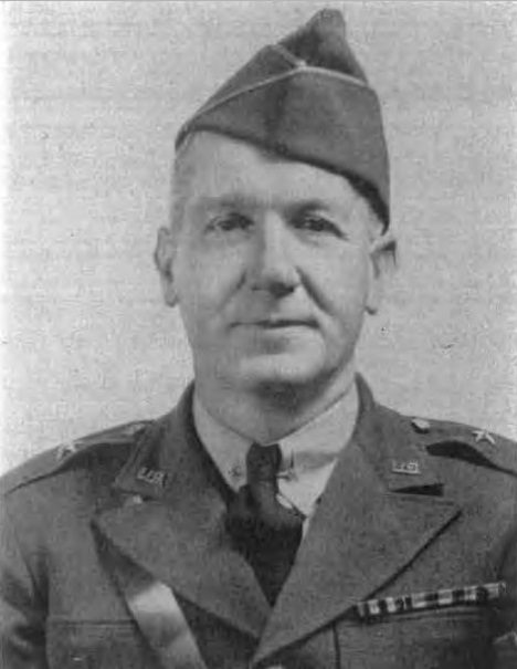 Leroy Hugh Watson, US Army officer who served from 1915 to 1953 and retired as a major general.